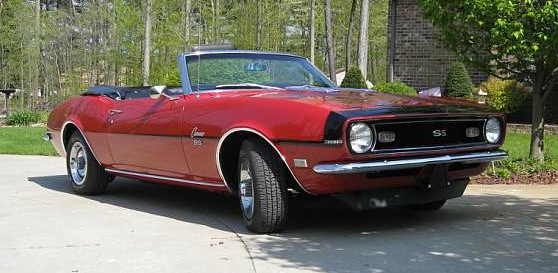 Patch's 1968 Chevrolet Camaro SS